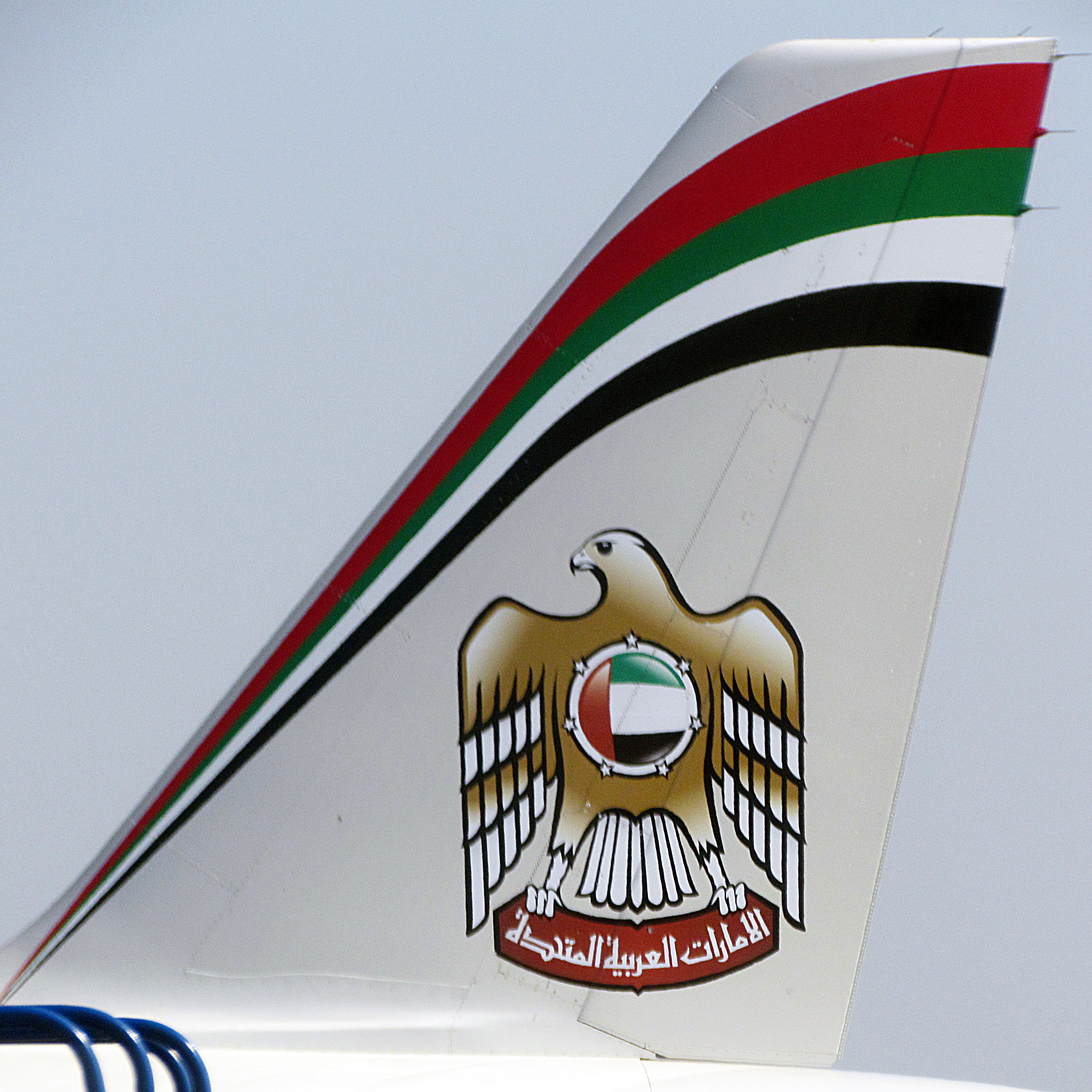 Vertical stabilizer of Airbus A320-200, Etihad